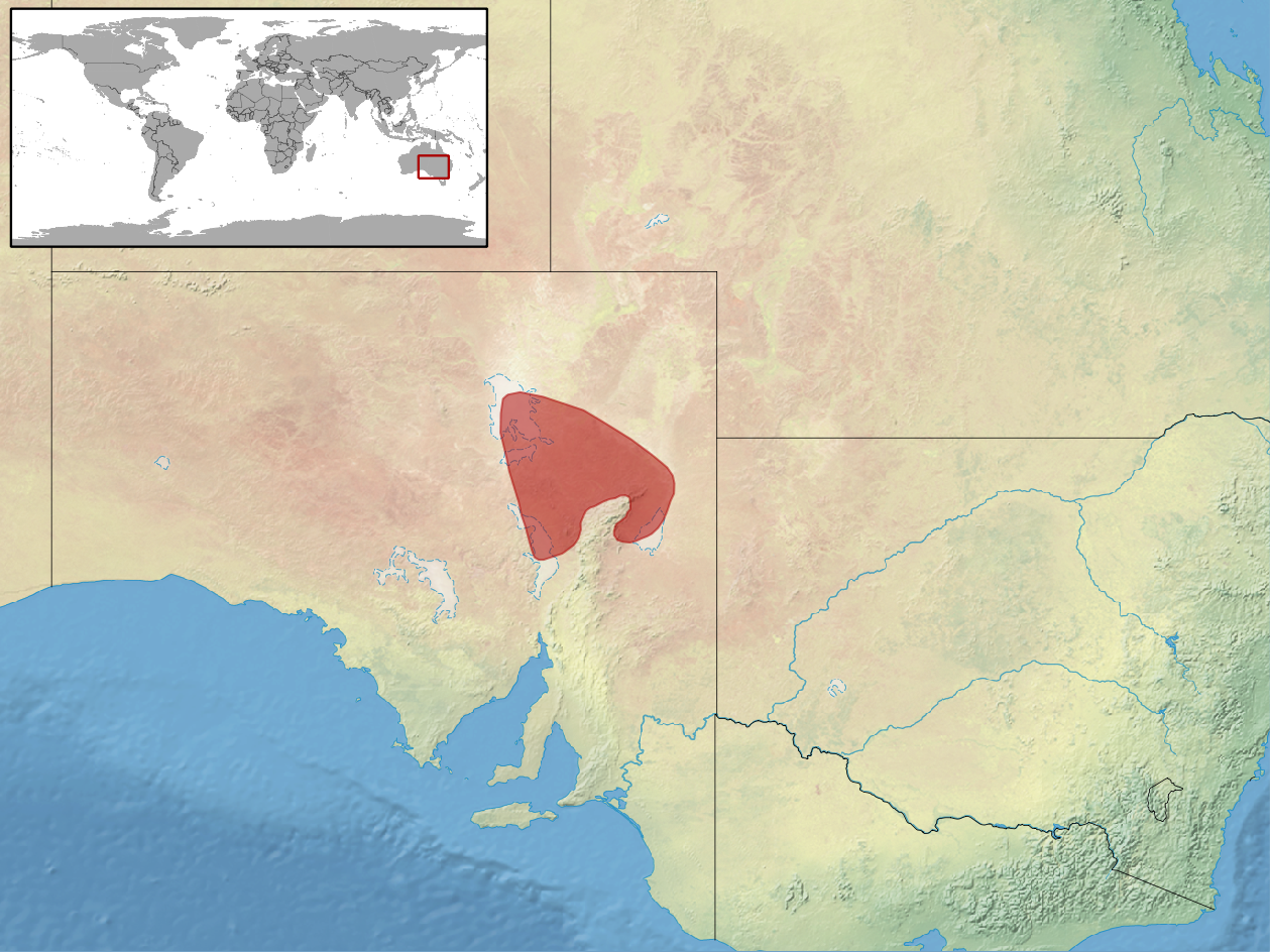 geographic distribution of Ctenophorus maculosus (Native: Australia)